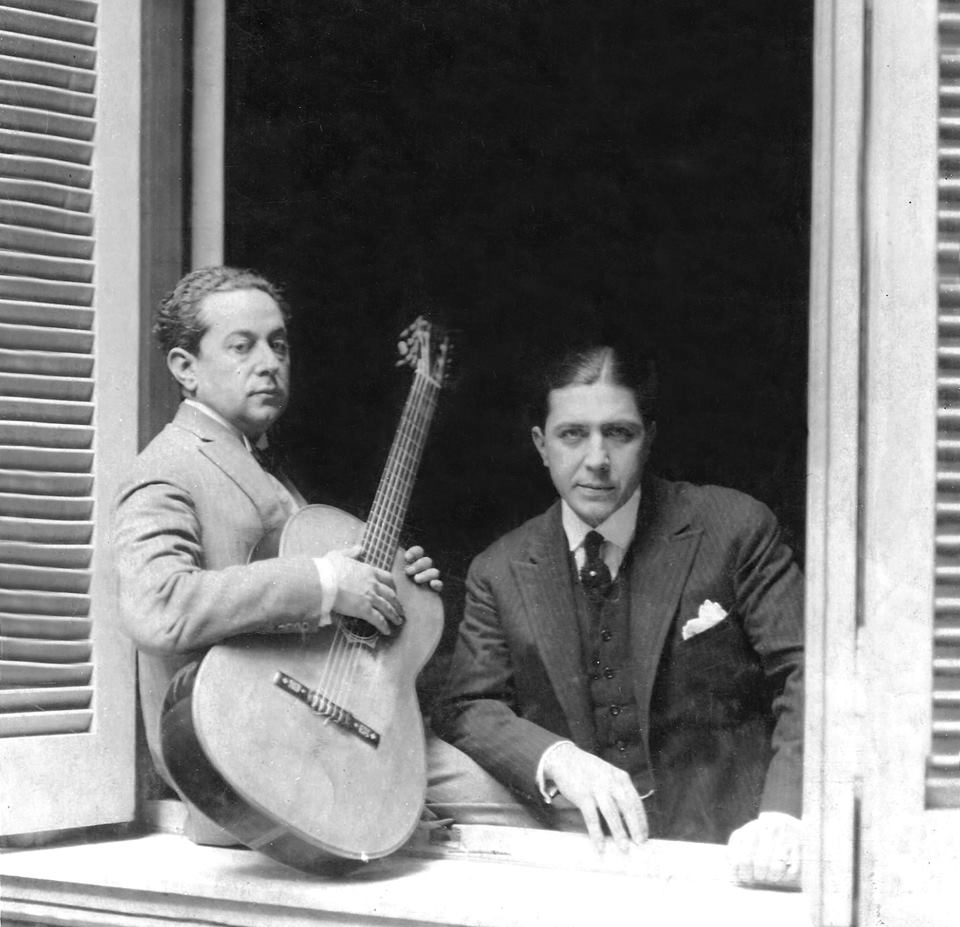 José Razzano (with guitar) and Carlos Gardel in the Gardel's mother house of Buenos Aires.